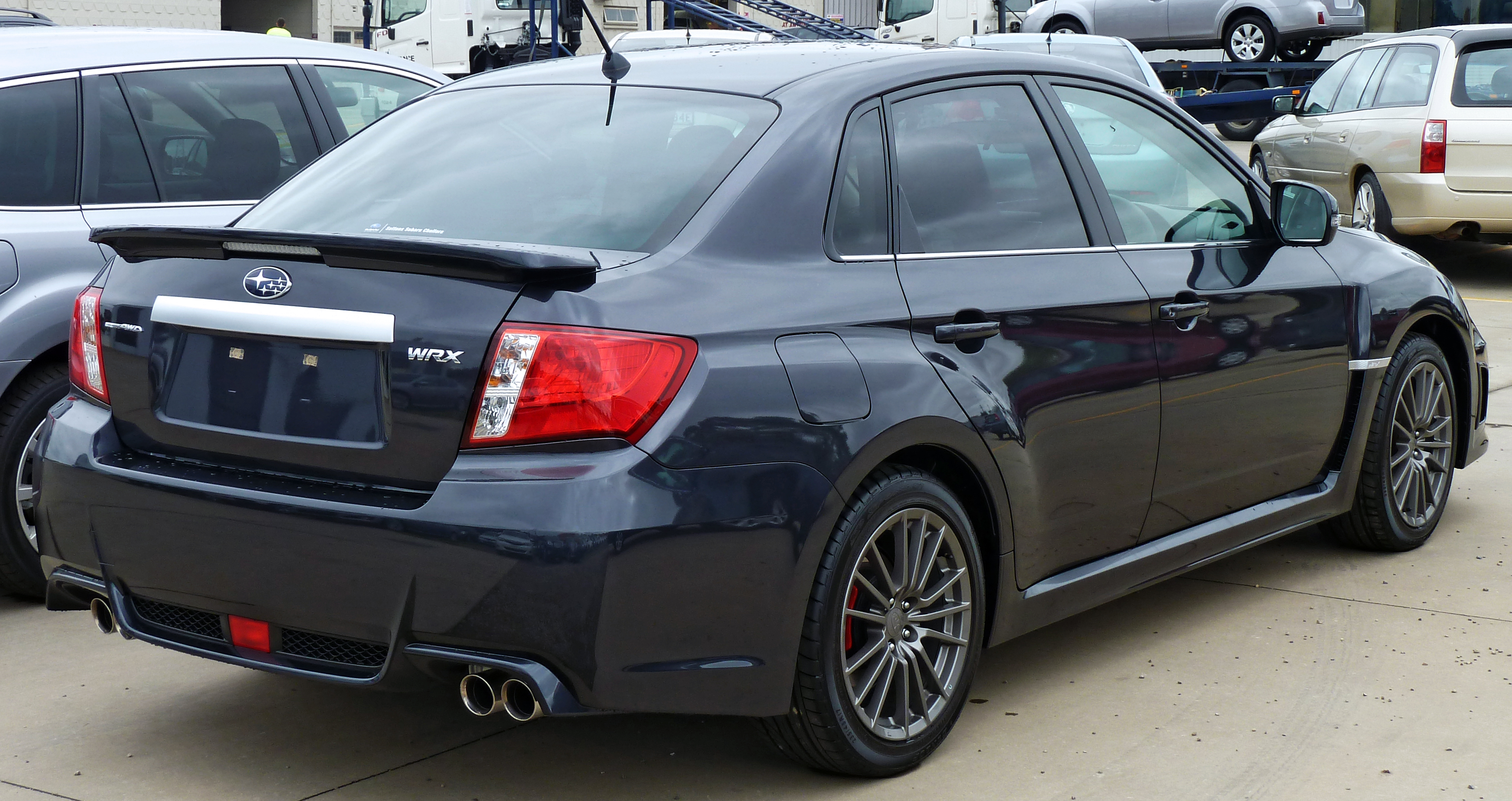 2010 Subaru Impreza (GVE MY11) WRX sedan. Photographed at Suttons Subaru, Chullora, New South Wales, Australia.